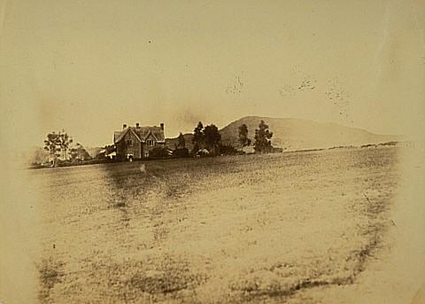 Kinder House photograph from collection of house owner's albums, today registred as Cat.I Historic Place with the NZHPT [1], 2 Ayr Street, Parnell, Auckland